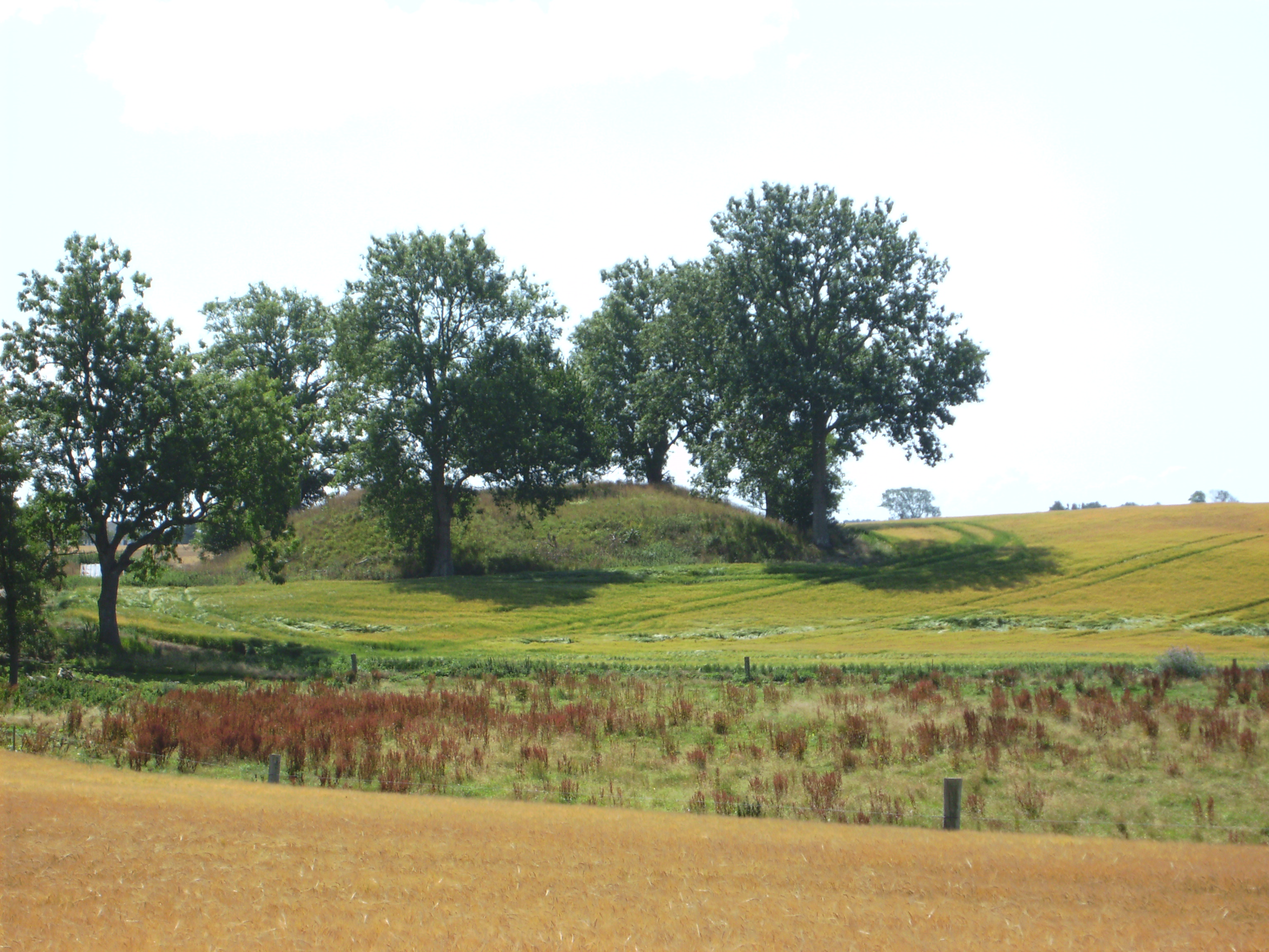 Remains of a fortress from the middelages